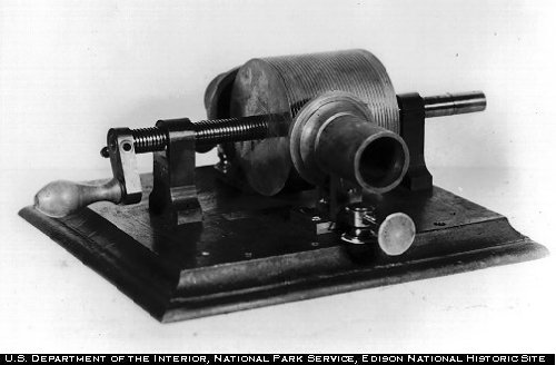 Original Tin-foil Phonograph; West Orange, NJ